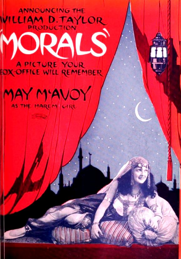 Advertisement for the American drama film Morals (1921) with May McAvoy, from the insert after page 2 of the November 26, 1921 Exhibitors Herald.